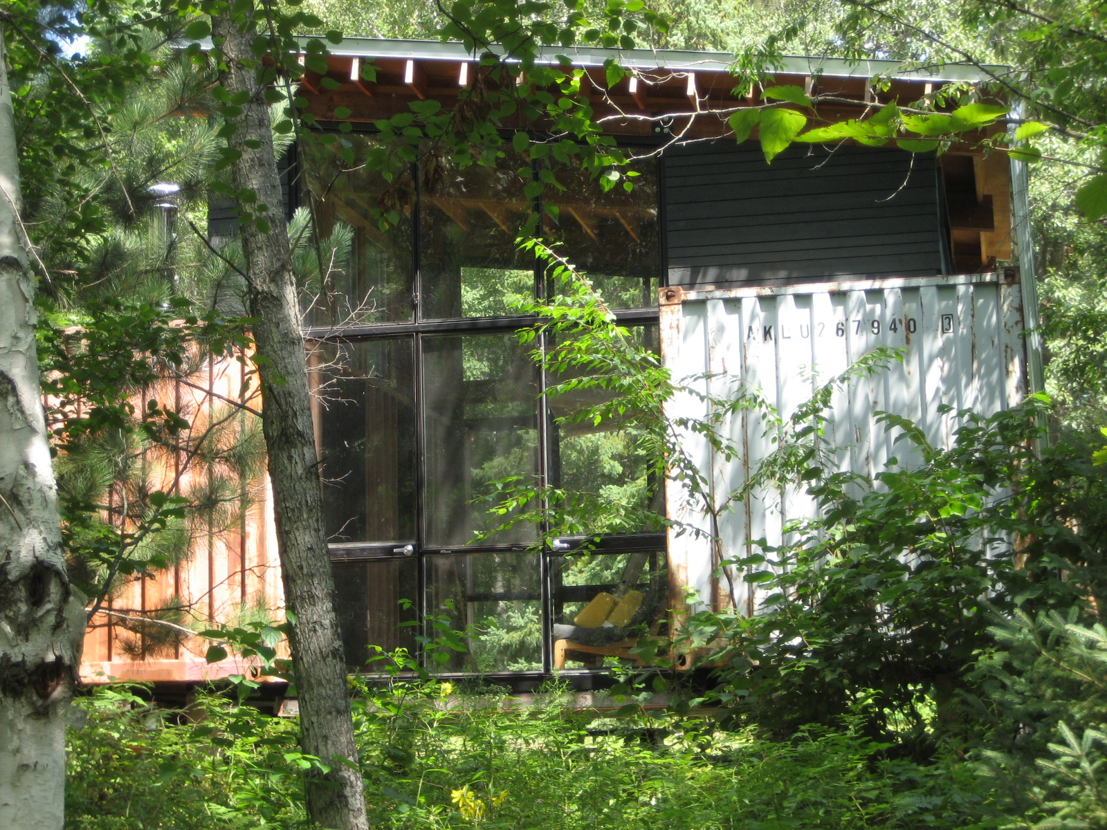 Container housing